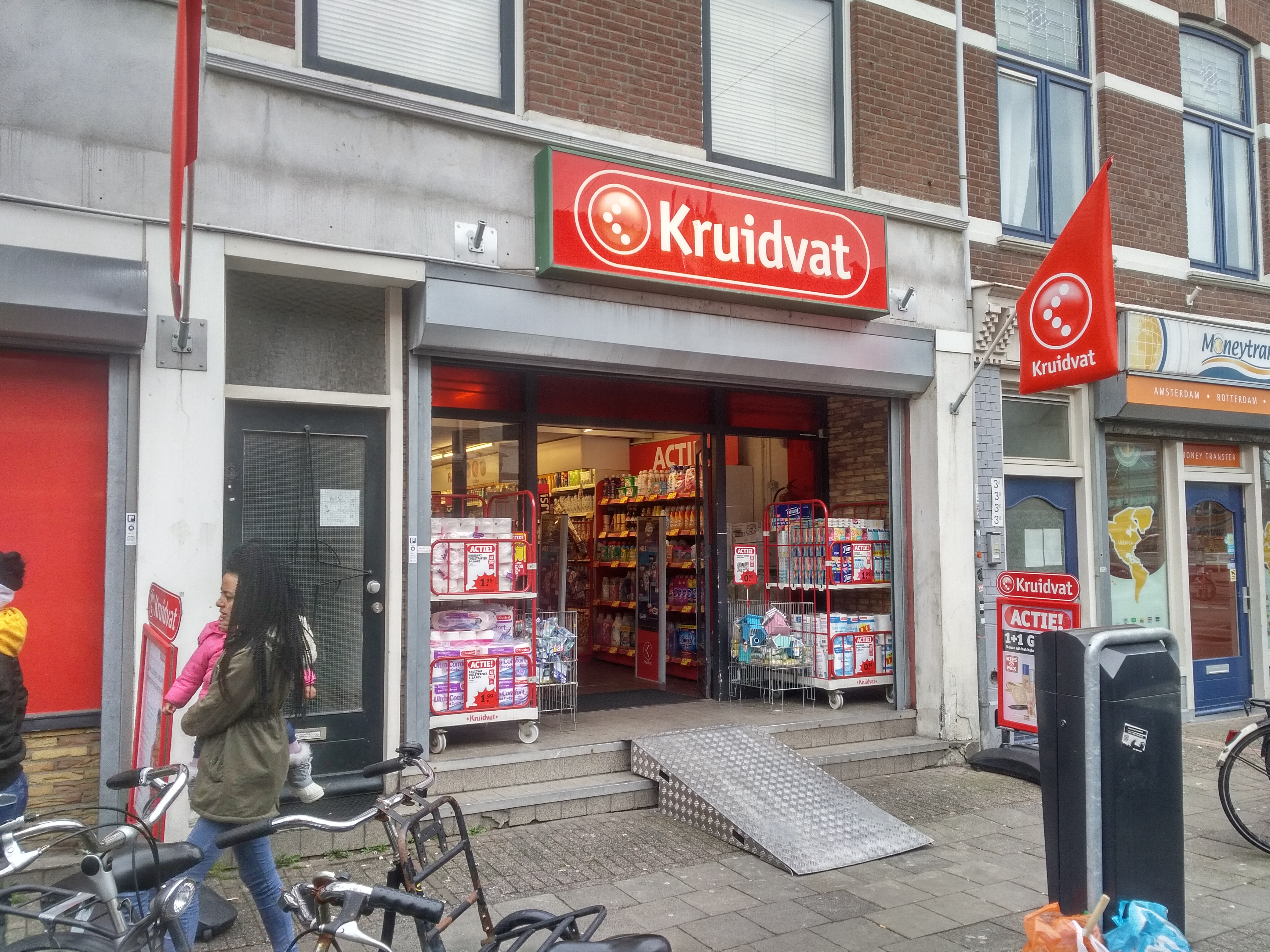 A local Kruidvat store in the Damstreet in the city of Utrecht.